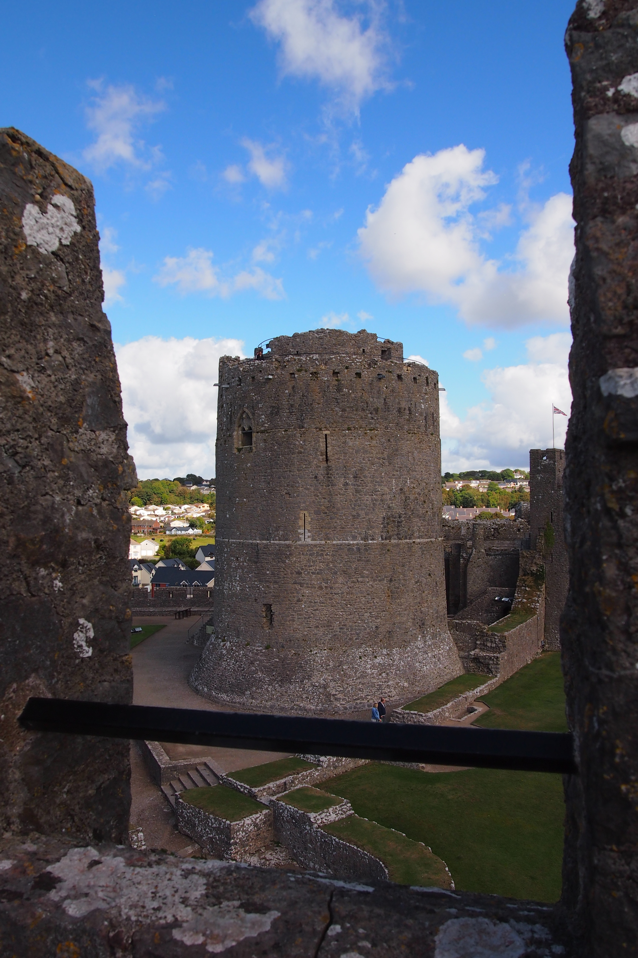 Pembroke Castle Wikidata has entry Q1422235 with data related to this building.